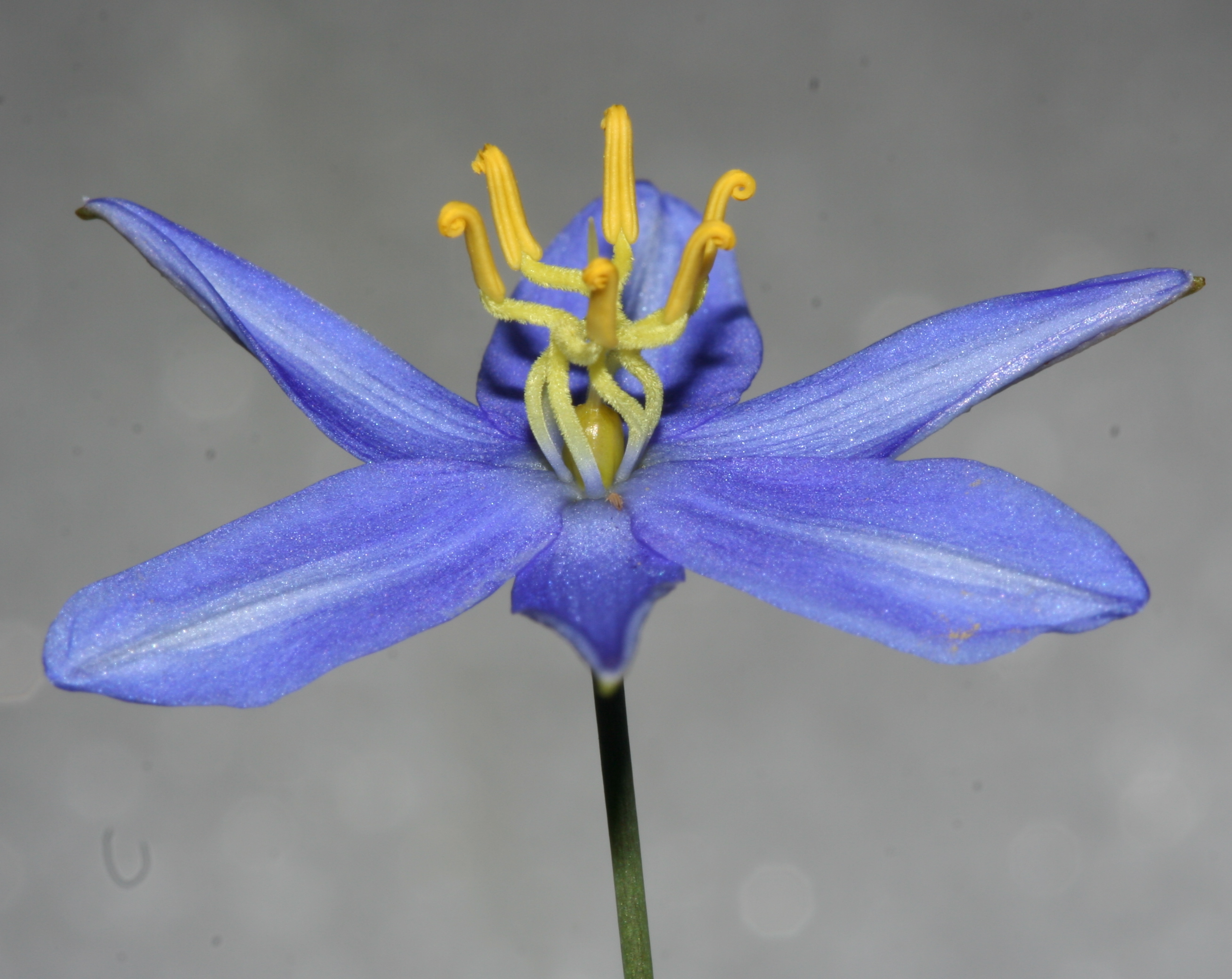 Stypandra grandis flower = Thelionema grande